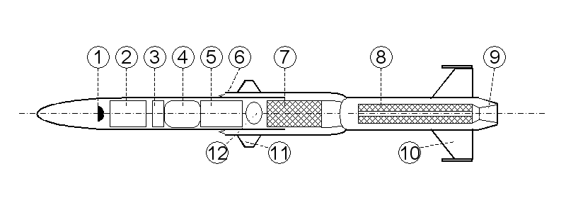 3M9 missile Cutaway. 1, 2 - Semi-active homing seeker 1SB4; 3 - Proximity fuse 3E27; 4 - 57 kg blast-fragmention warhead 3N12; 5 - Autopilot 1SB6M; 6 - Ramjet air intakes; 7 - Gas generator 9D16K; 8 - Main engine fuel; 9 - Nozzle; 10 - Stabilizer (tailfins); 11 - Wing